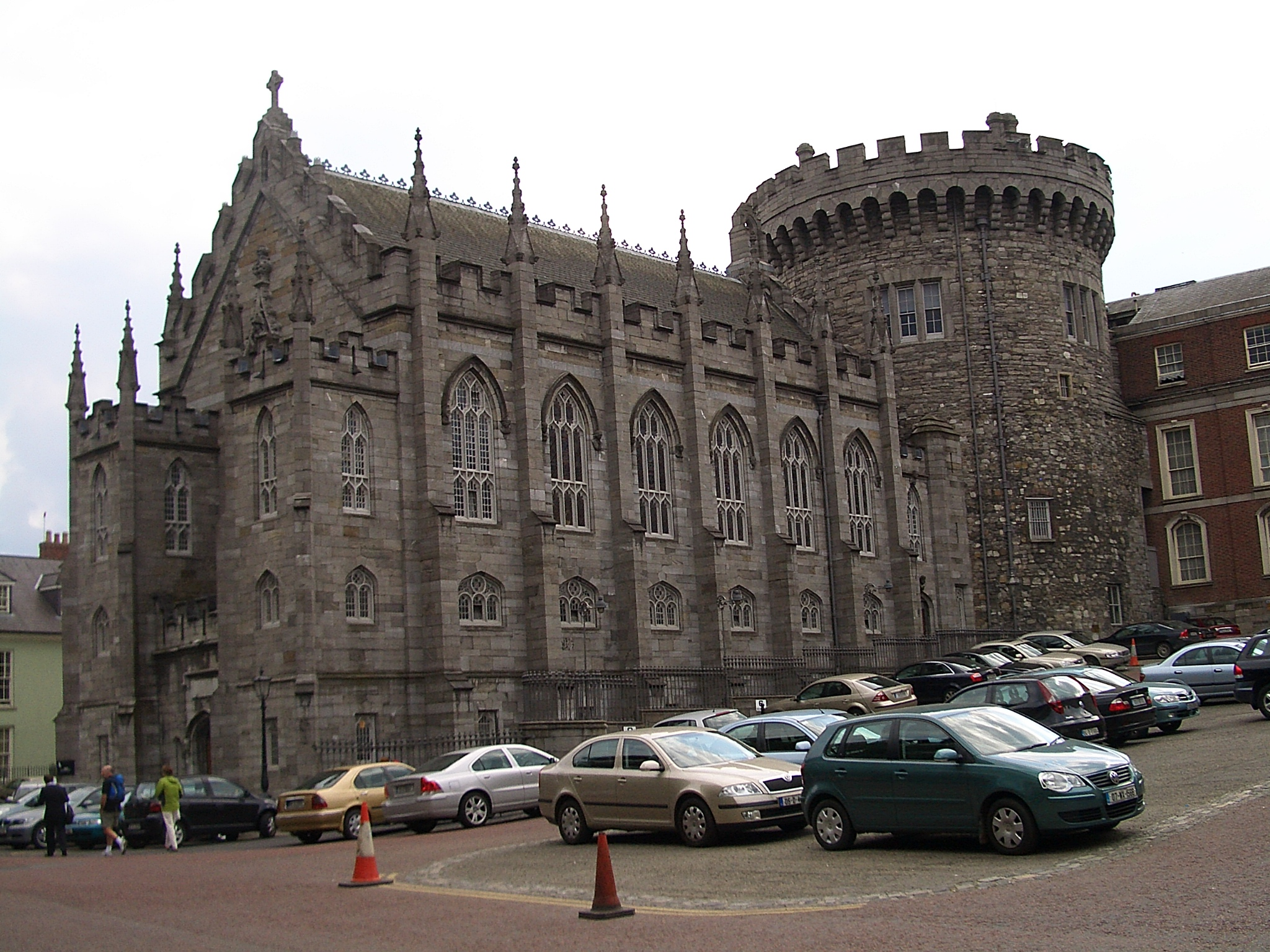 Dublin Castle